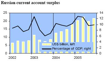 Russian current account